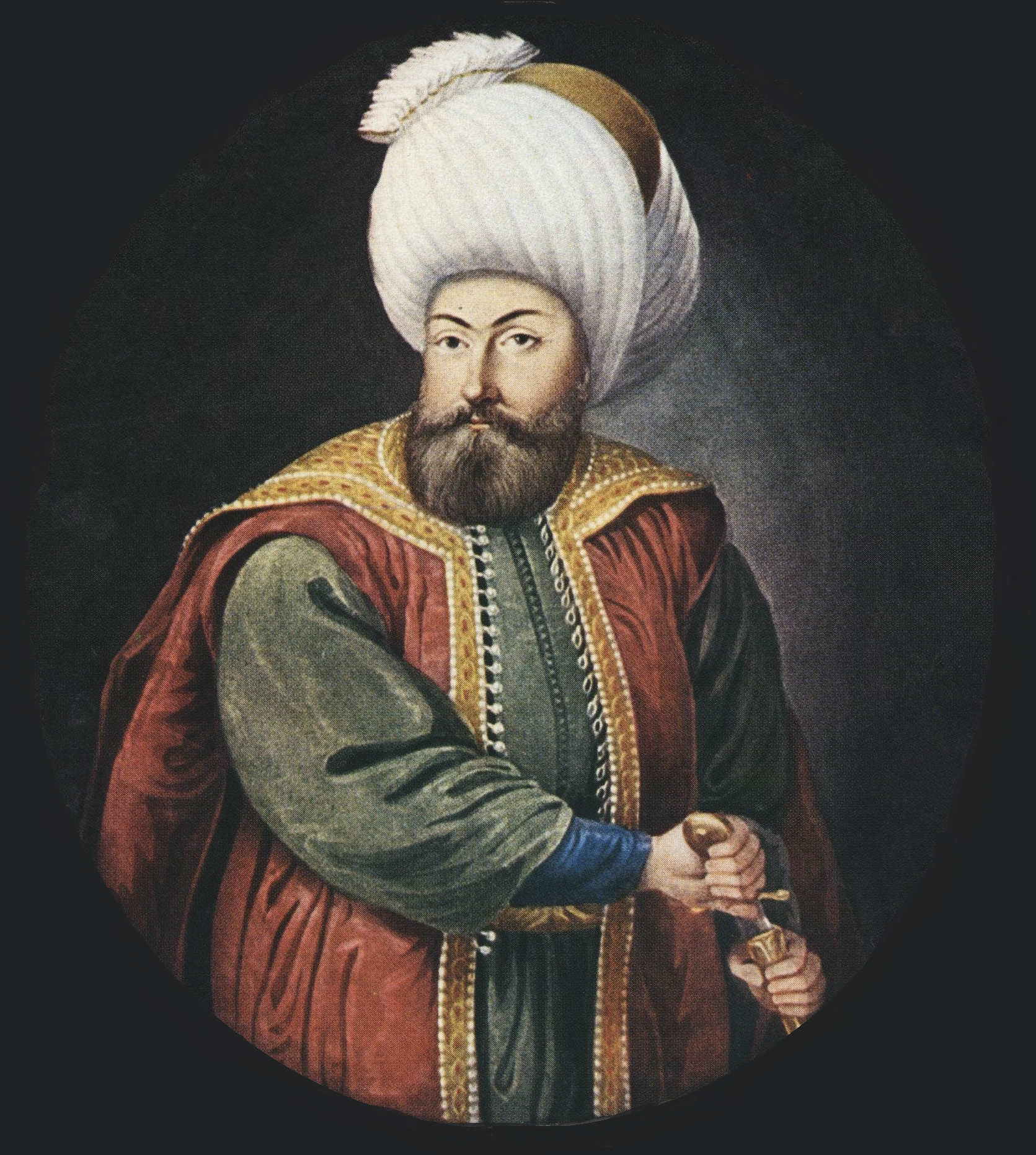 Sultan Gazi "father of kings" Uthmān (Osman) Han I.